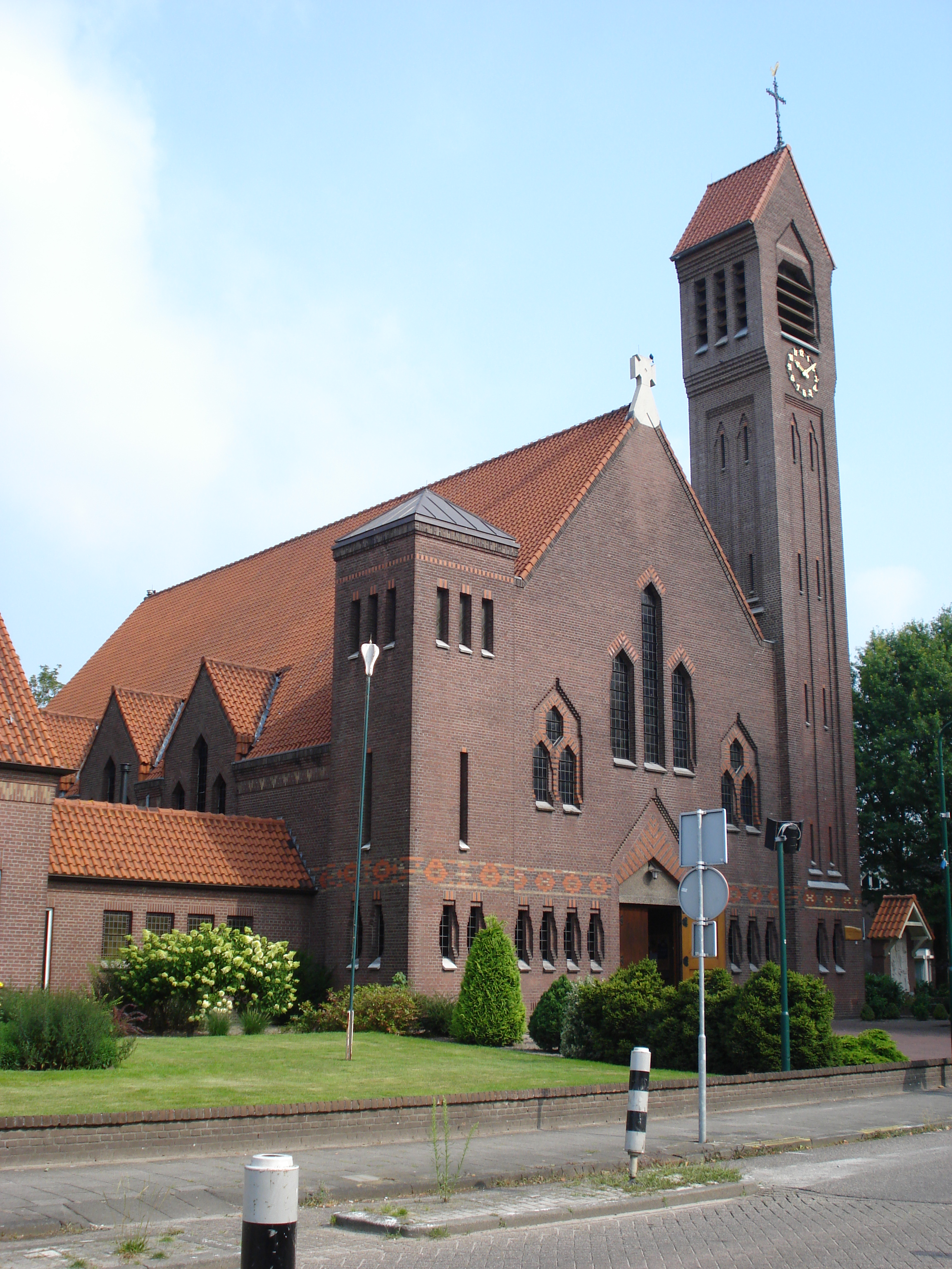 Vorstenbosch (N-Br, NL), church